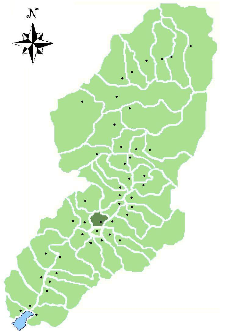 Map of the Comune di Malegno, Valle Camonica